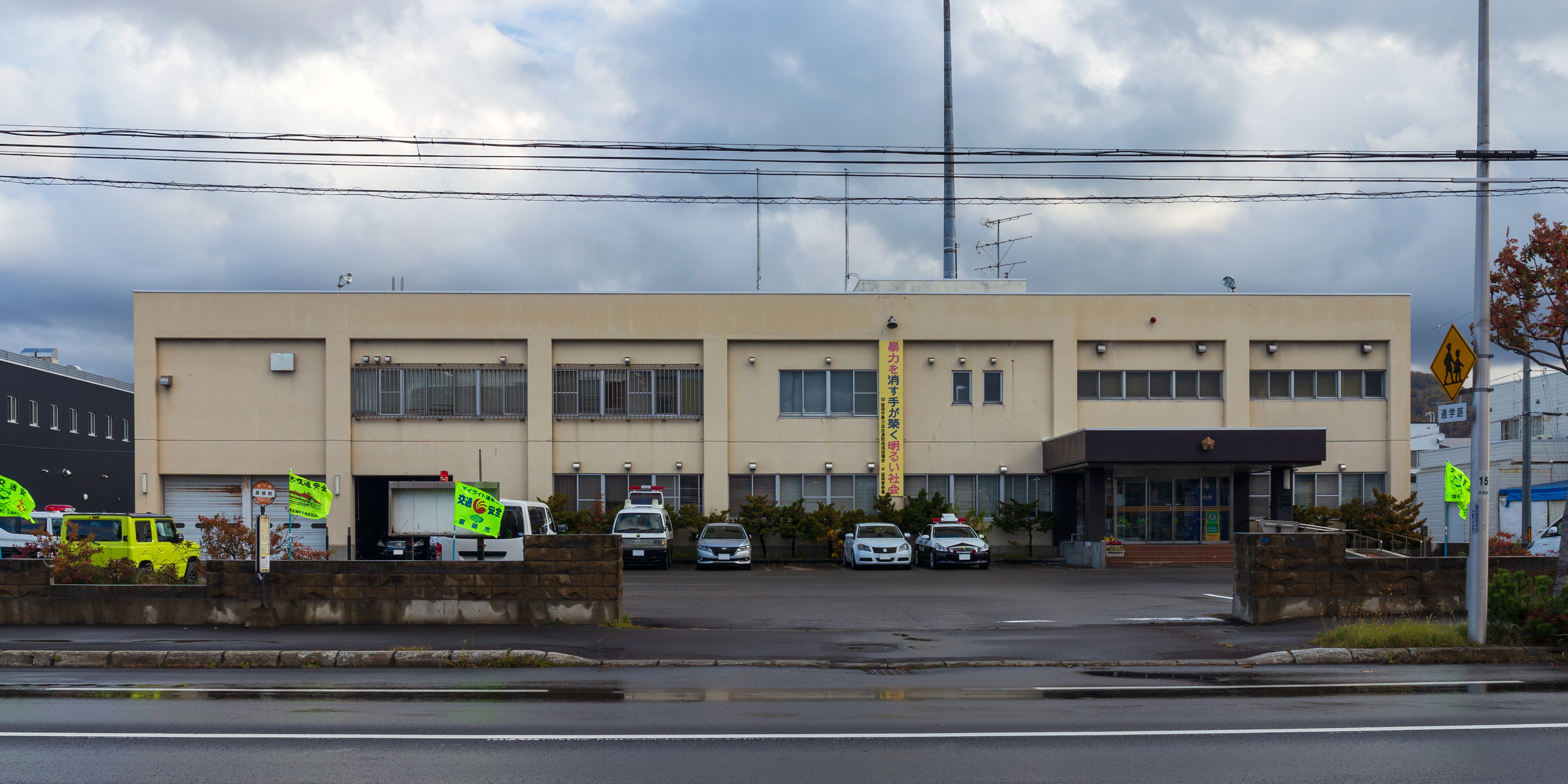 Hokkaido Prefectural Police Rumoi Police Station in Rumoi City, Hokkaido, Japan